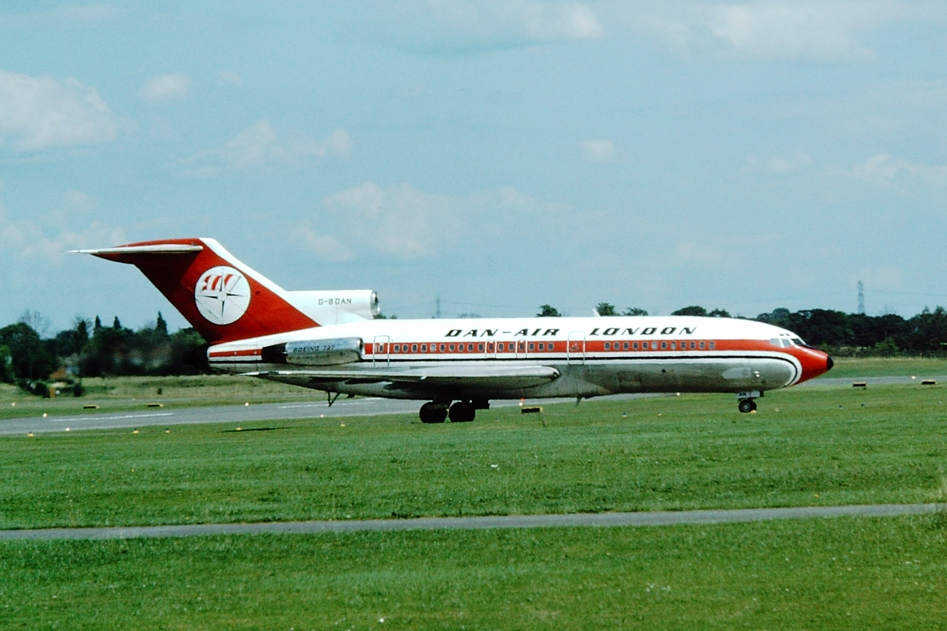 G-BDAN Boeing 727-46 Dan Air Birmingham Airport 24-07-1978